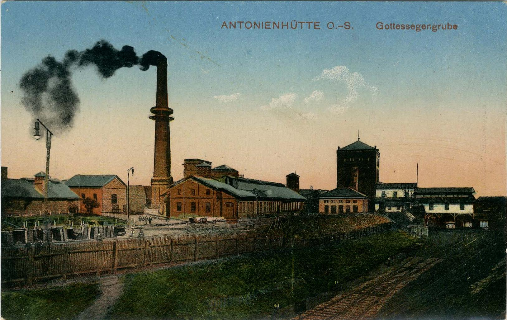 Coal mine Gottessegen in Antonienhütte (Ruda Śląska), Poland, a German postcard.